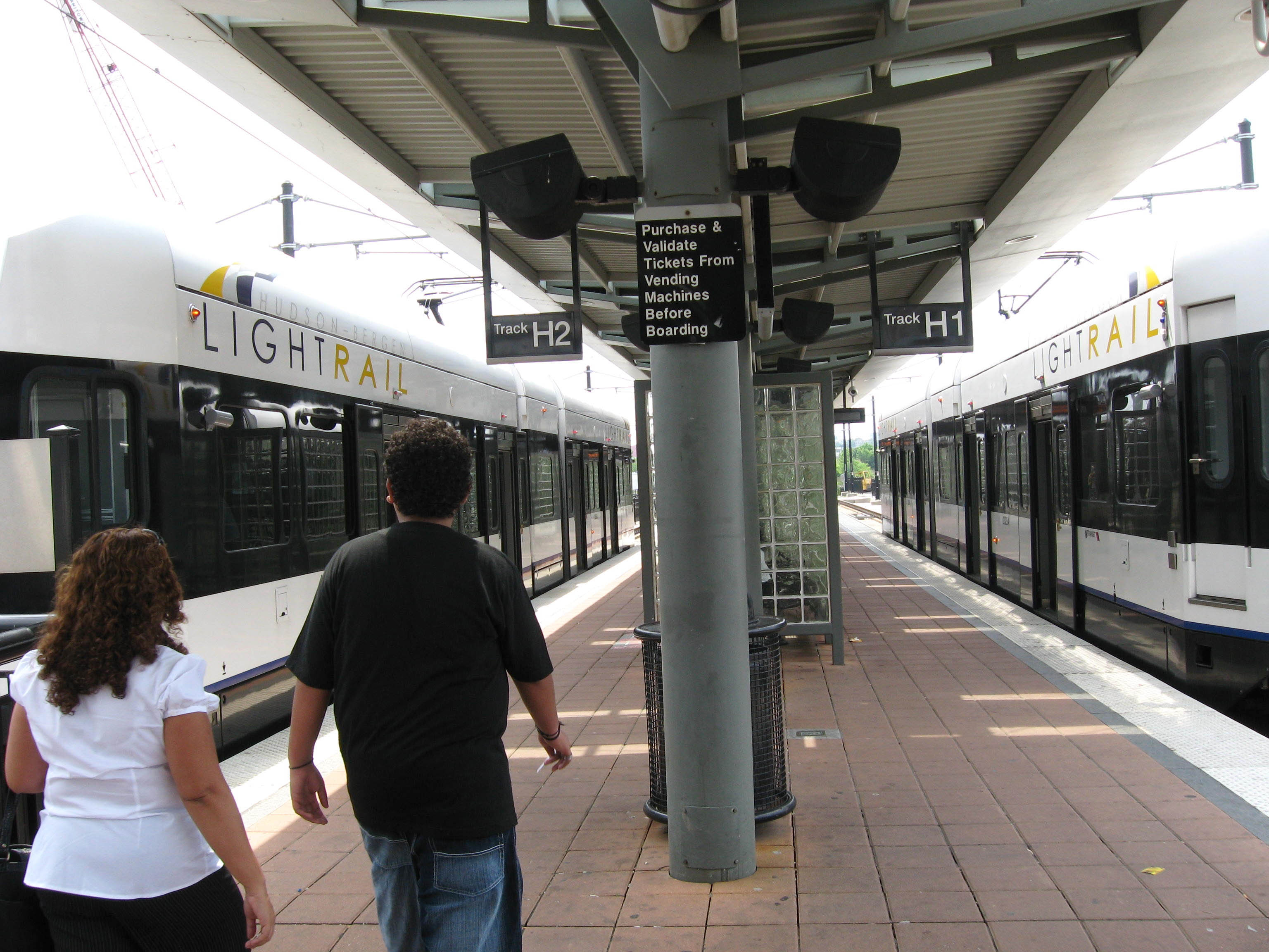 Looking west at platform of Hoboken Terminal of HBLR on a cloudy June 22 2008 afternoon.